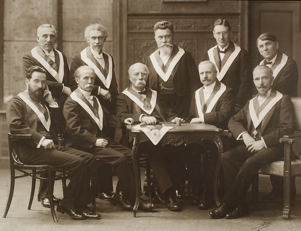 Henri La Fontaine, Venerable Master, with members of his Committee of Dignitaries (Lodge Les Amis Philanthropes), circa 1910